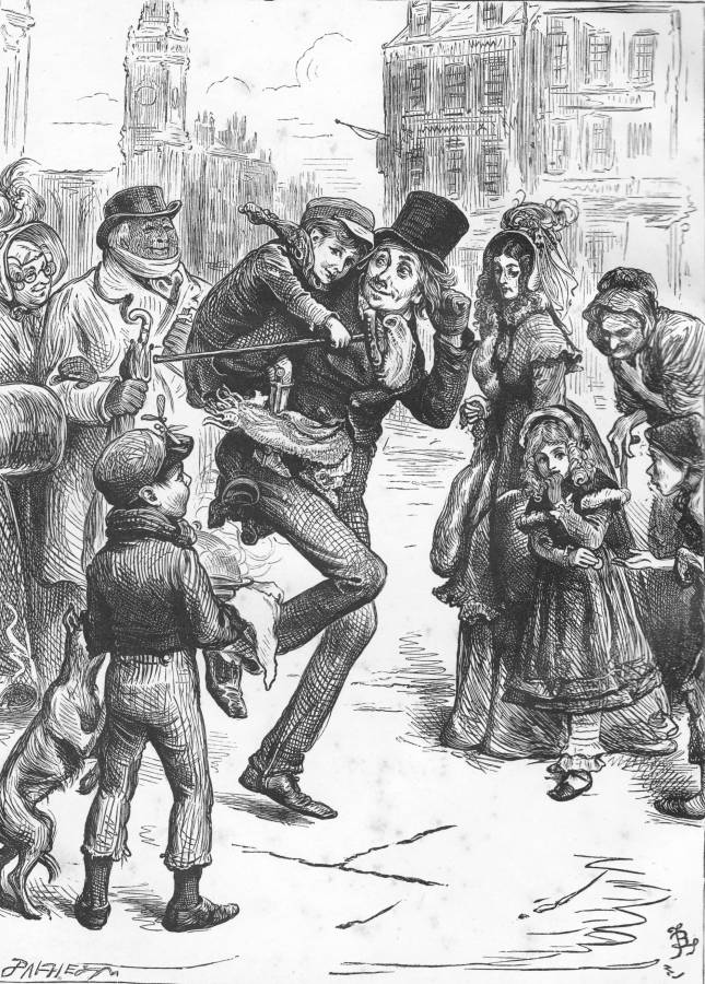 A Christmas Carol, Bob Cratchit and his son Tim : "He had been Tim's blood-horse all the way from church, and had come home rampant", by Fred Barnard